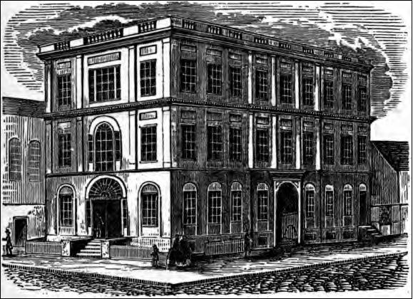 Print of the school on Holliday and Fayette Streets c. 1869. Baltimore City College building on Holliday and Fayette Streets.